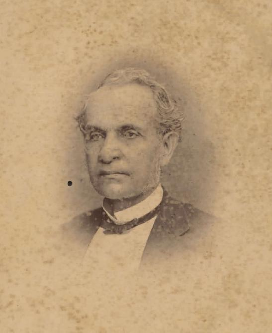 João Maurício Wanderley, Baron of Cotejipe, c.1870.